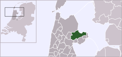 Locator map of Dutch municipalities in Noord-Holland (LocatieMedemblik.png)